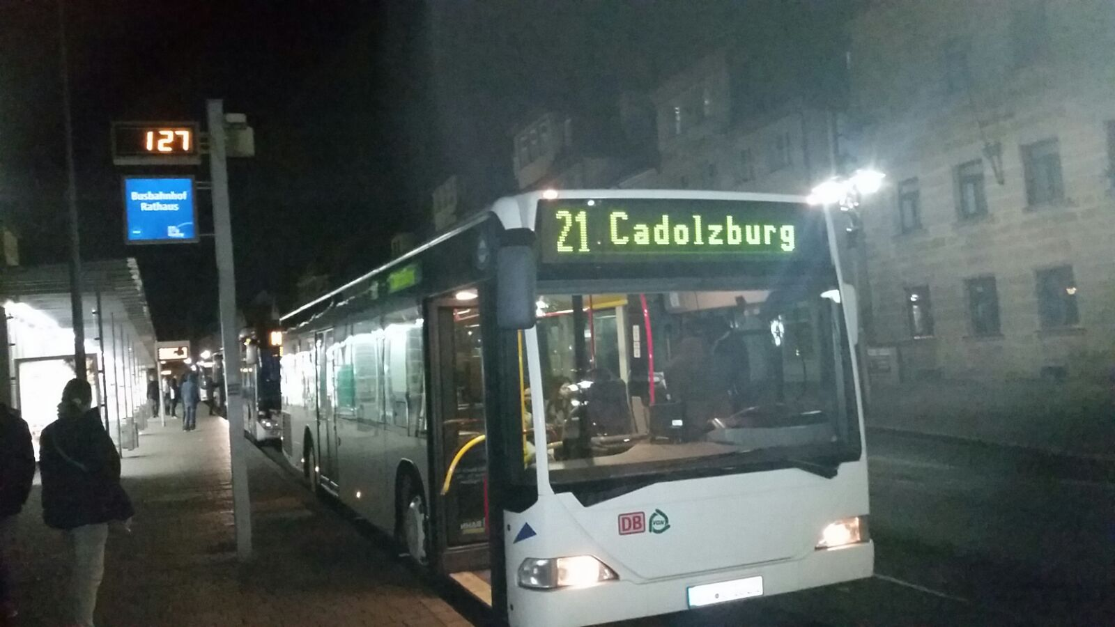 DRB Bus in Fürth